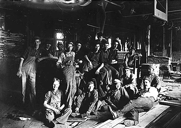 Noon hour in a furniture factory. Indianapolis, Indiana, 08/1908. Photographed by Lewis Hine.